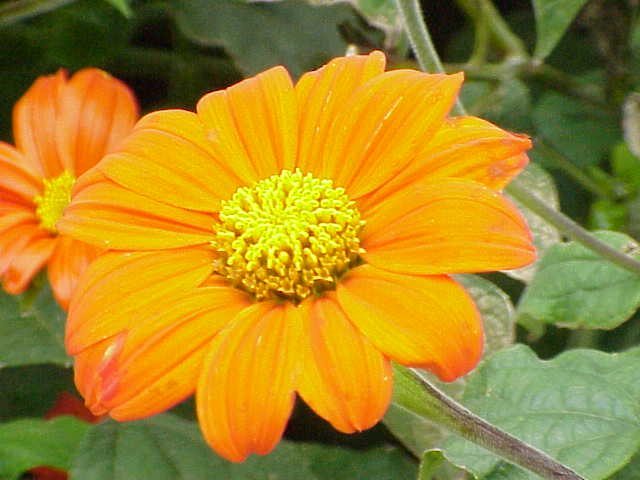 Species: Tithonia rotundifolia Family: Compositae Image No. 2